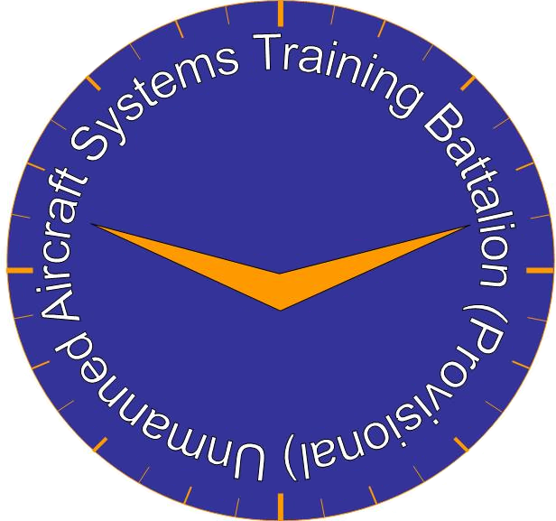 Unmanned Aircraft Systems Training Battalion logo